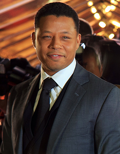 Terrence Howard at the 2011 Toronto International Film Festival.